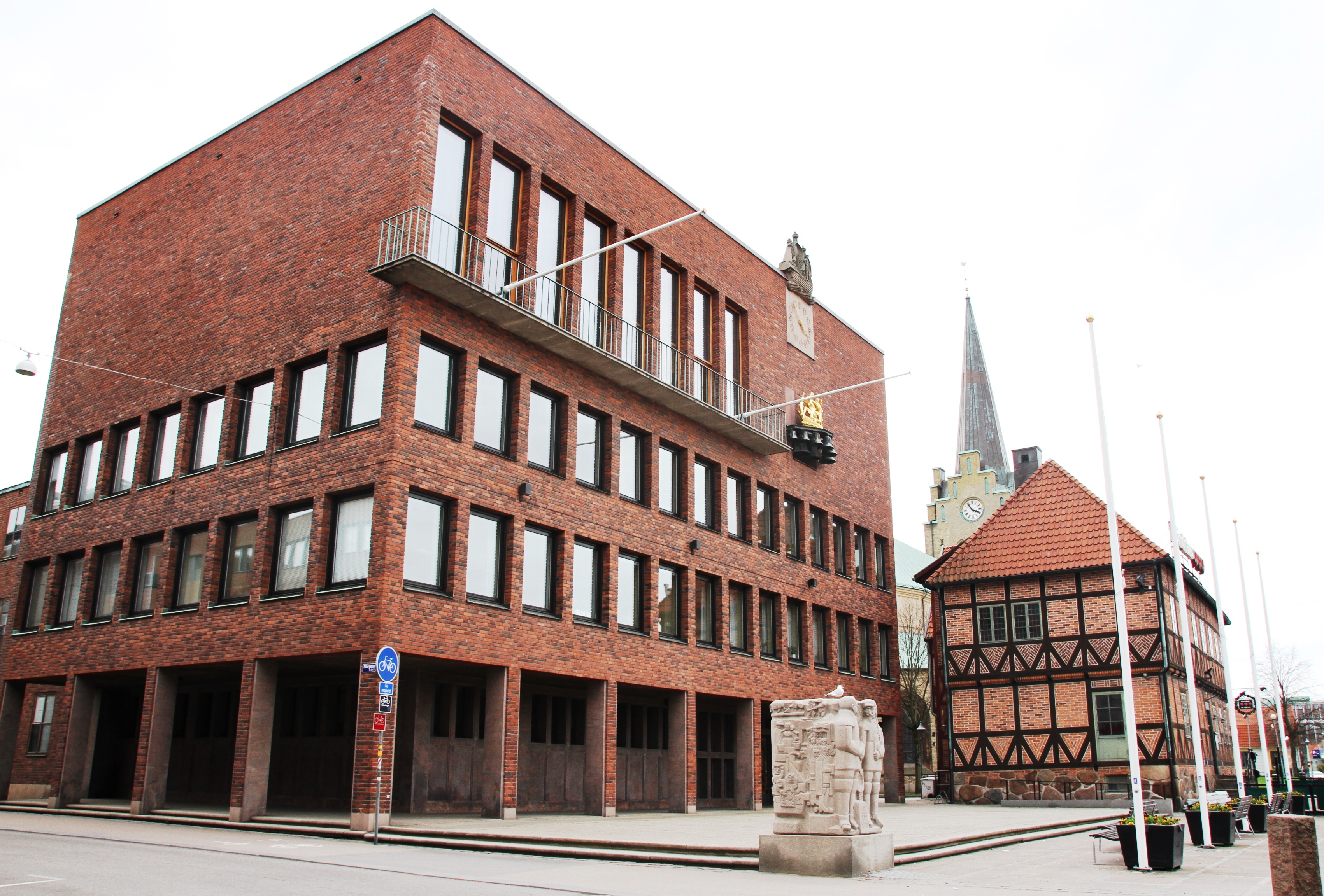 Image from central halmstad, a city in southwestern Sweden.This is the city hall